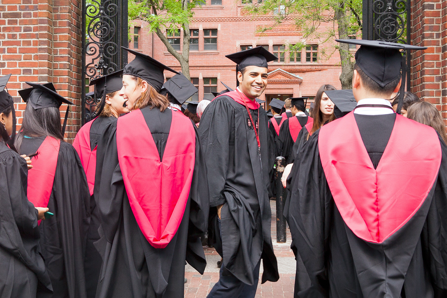 Harvard Class of 2015 graduates at Harvard Yard's Sever Gate on the morning of the school's 364th Commencement